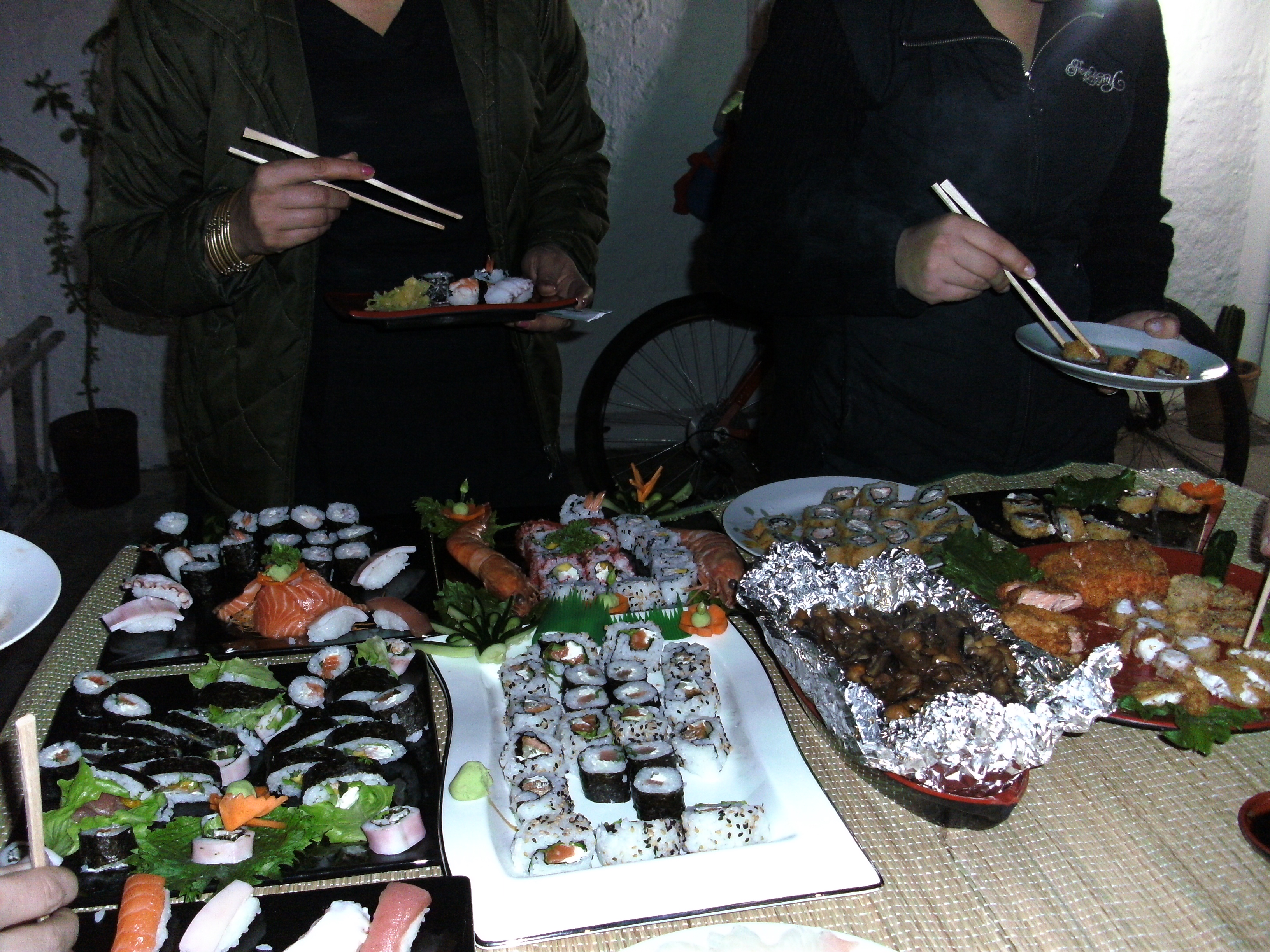 oriental food from brasil.JPG